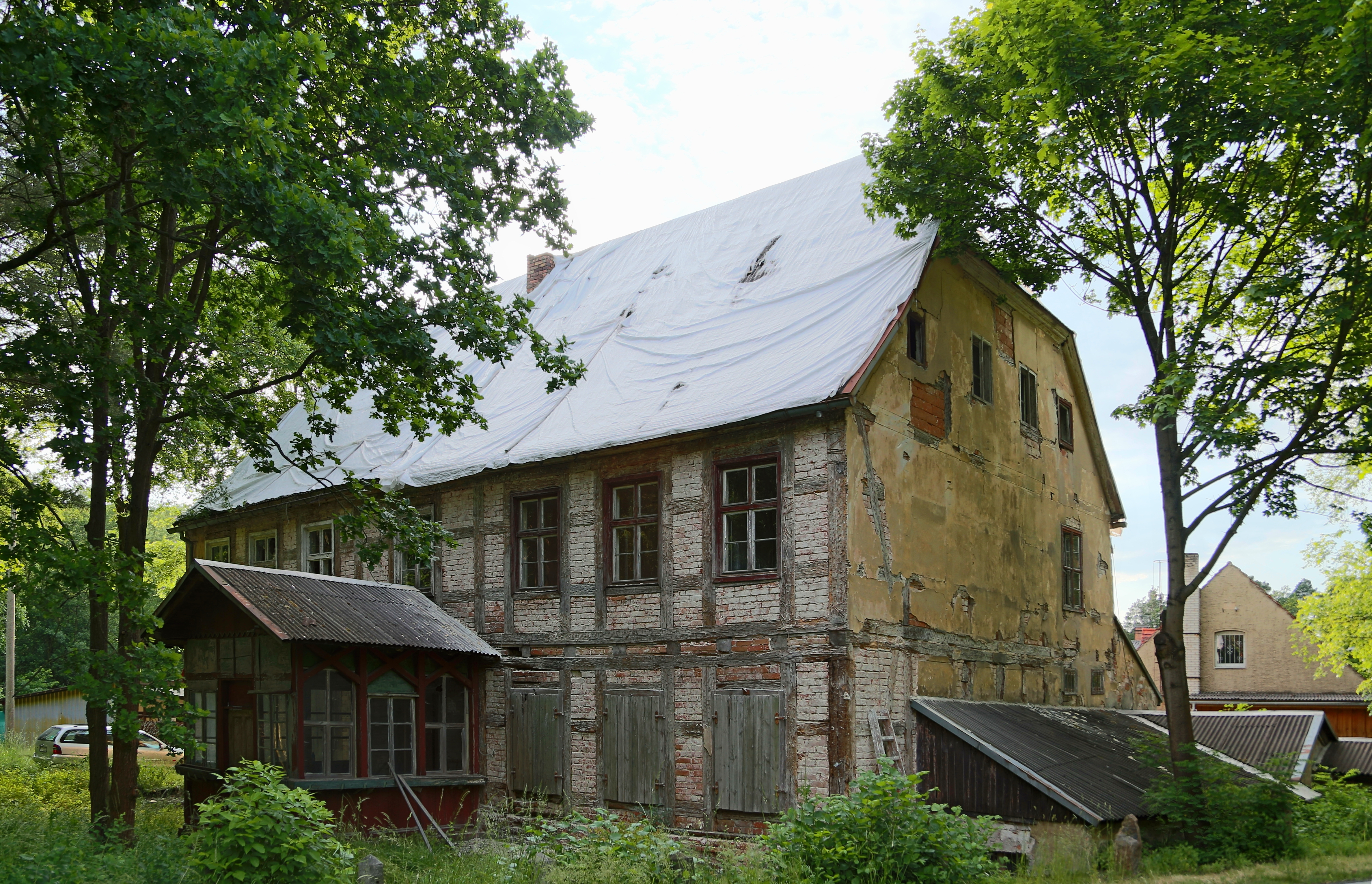 Former forester's lodge Alte Försterei in Börnichen, a hamlet of Lübben, Landkreis Dahme-Spreewald, Brandenburg, Germany.